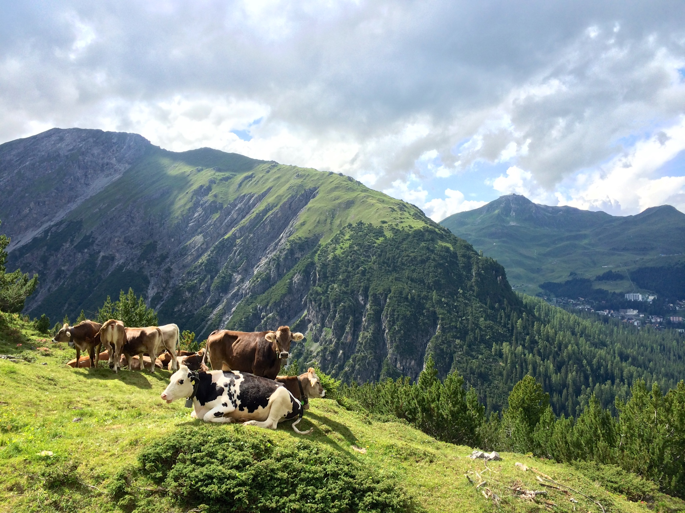 Schafrügg as seen from south-east, Arosa/Switzerland